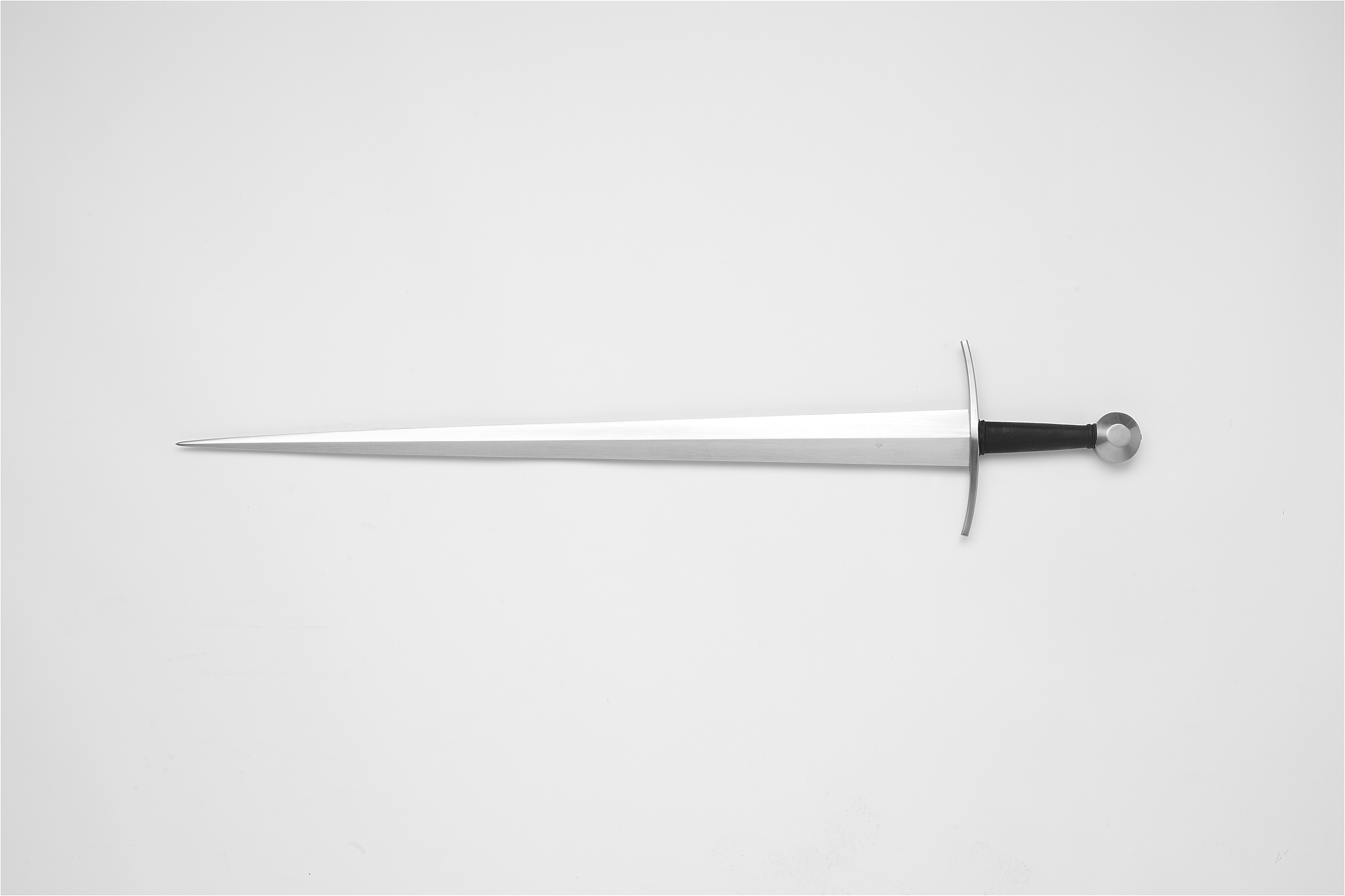 The Poitiers Limited Edition Medieval Sword